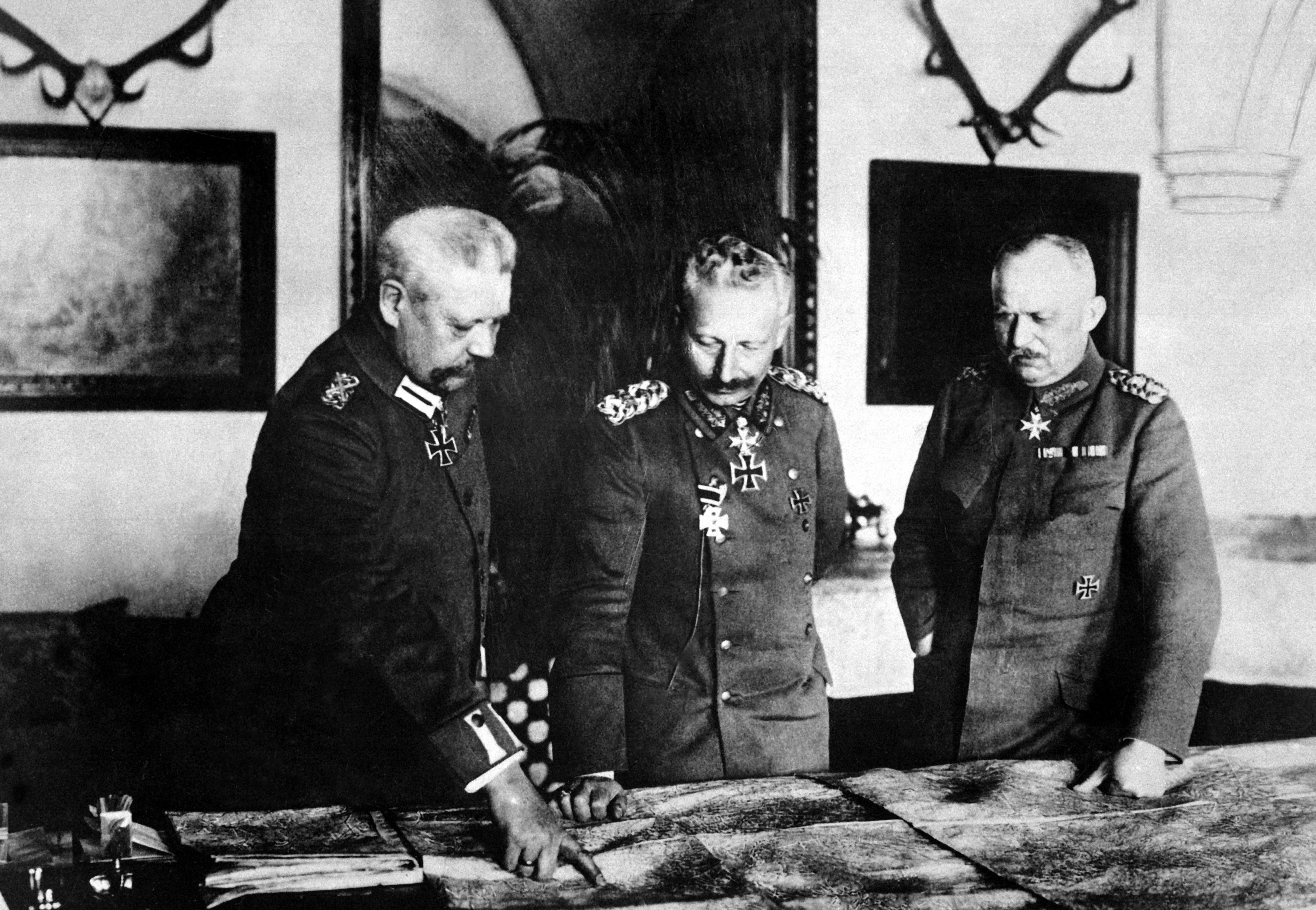 German General Headquarters, General Paul von Hindenburg, Kaiser Wilhelm II, General Erich Ludendorff. ID: HD-SN-99-02150